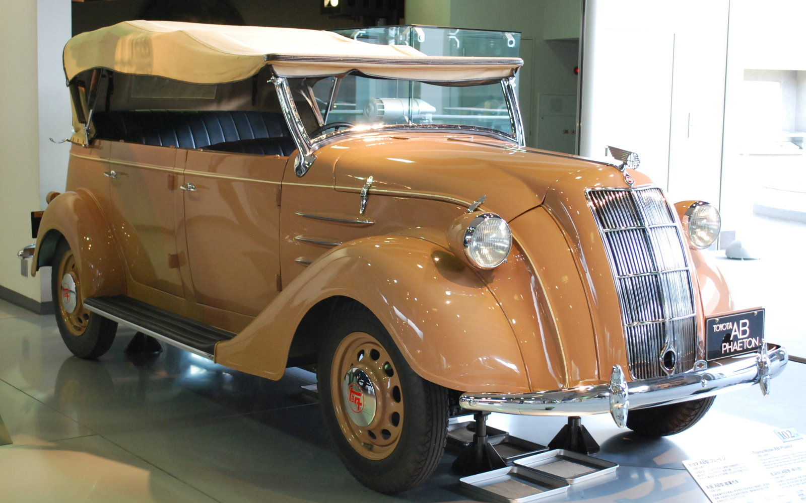 Toyota Model AB Phaeton (1936)